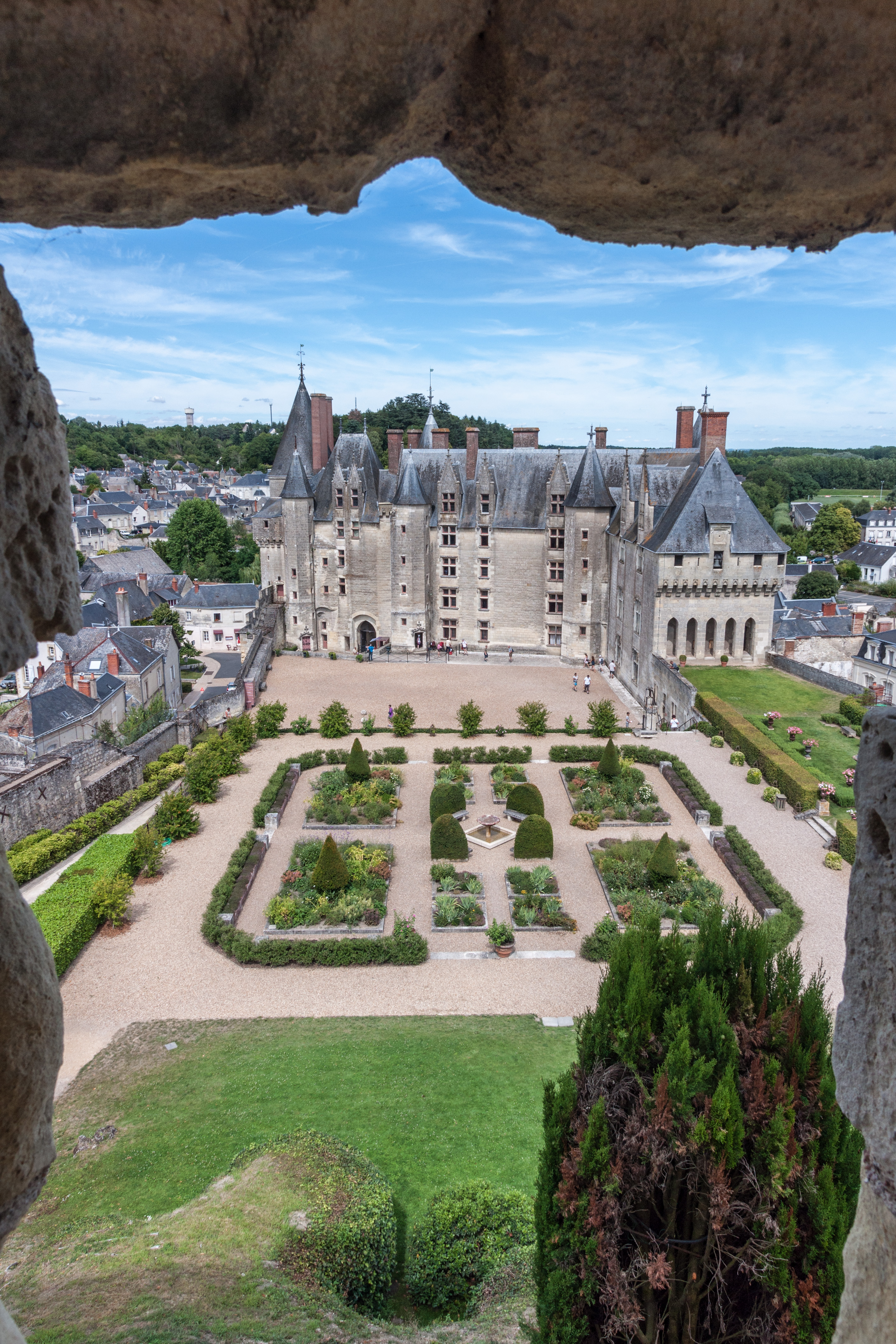 Le Château de Langeais vu depuis les ruines du donjon du 10e siècle